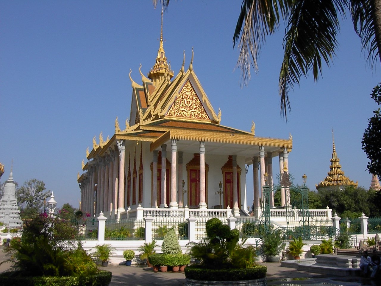 Royal Palace, Phnom Penh